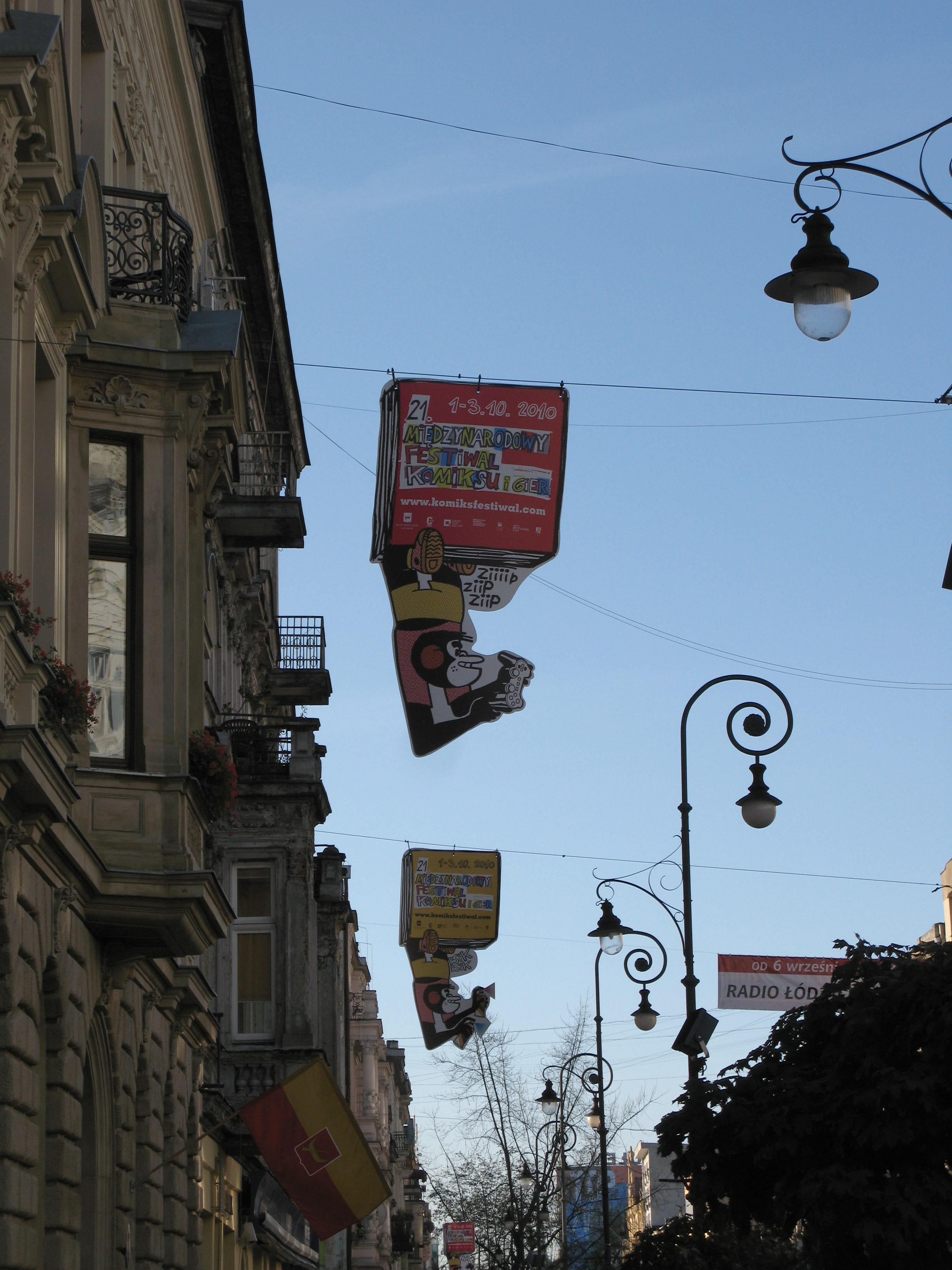 Advertisements of International Festival of Comics and Games in Łódź